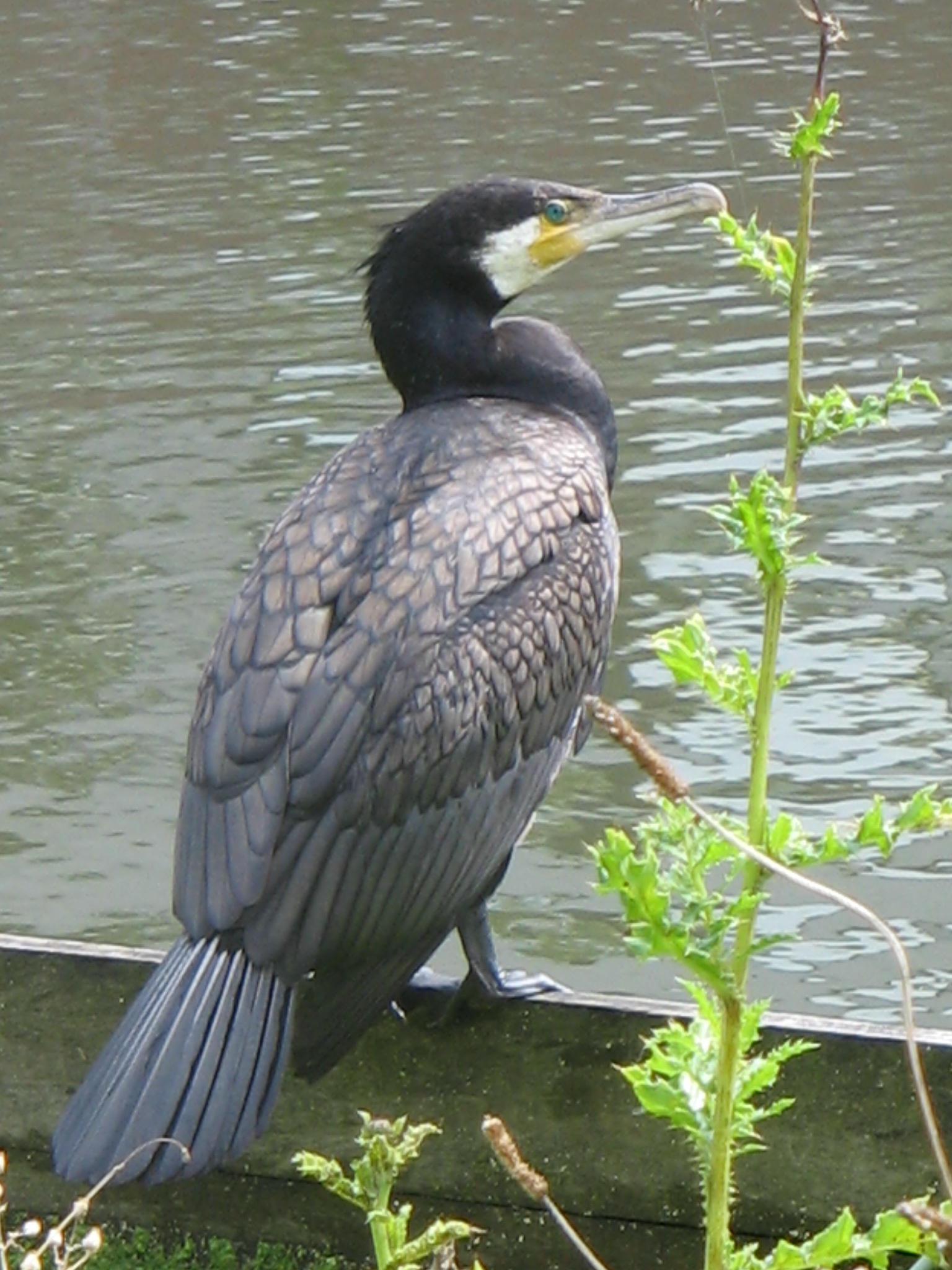 Great Cormorant Phalacrocorax carbo, Utrecht (in the city centre), Netherlands